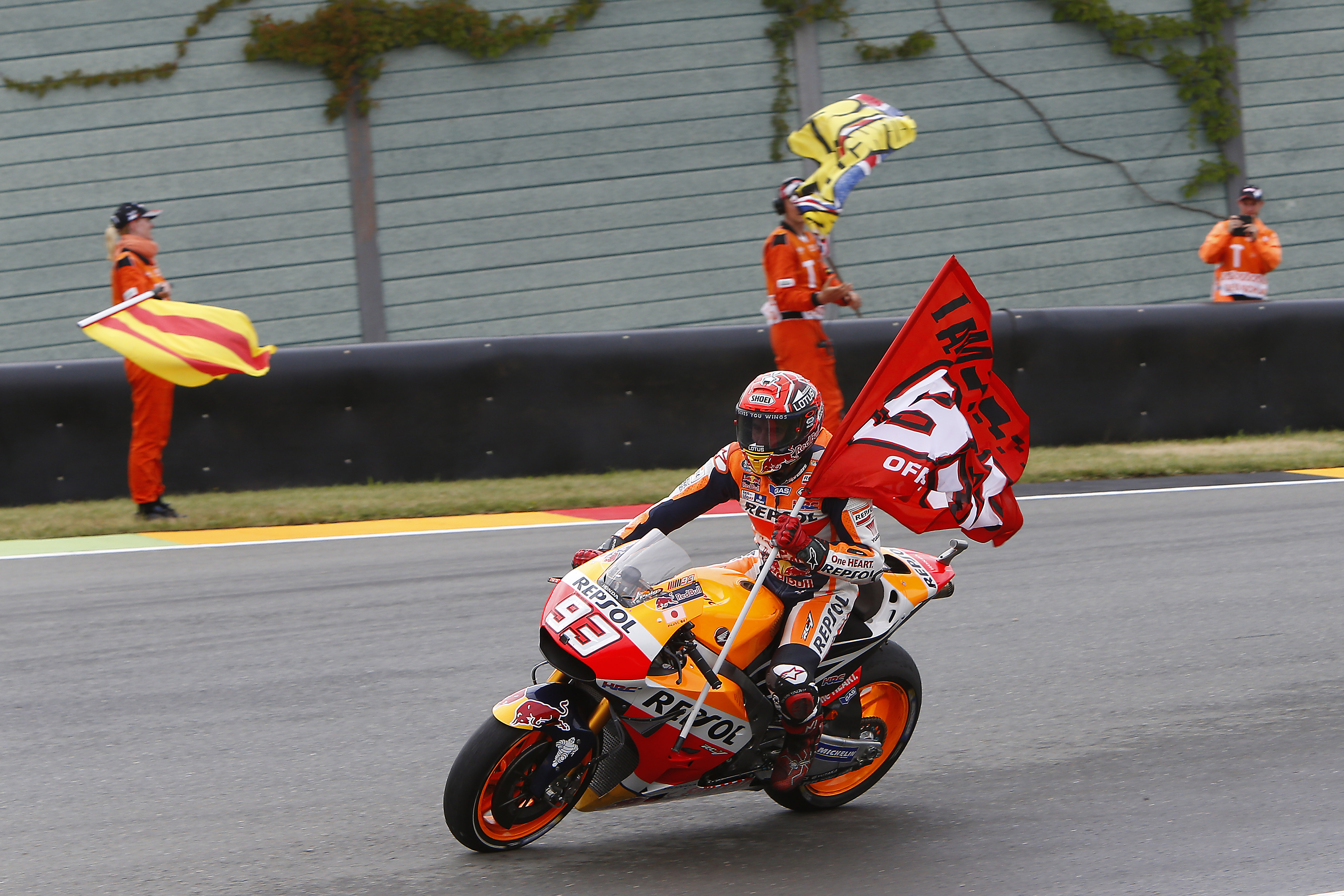 Marc Márquez, riding his Repsol Honda, celebrating after winning the 2016 German Grand Prix.